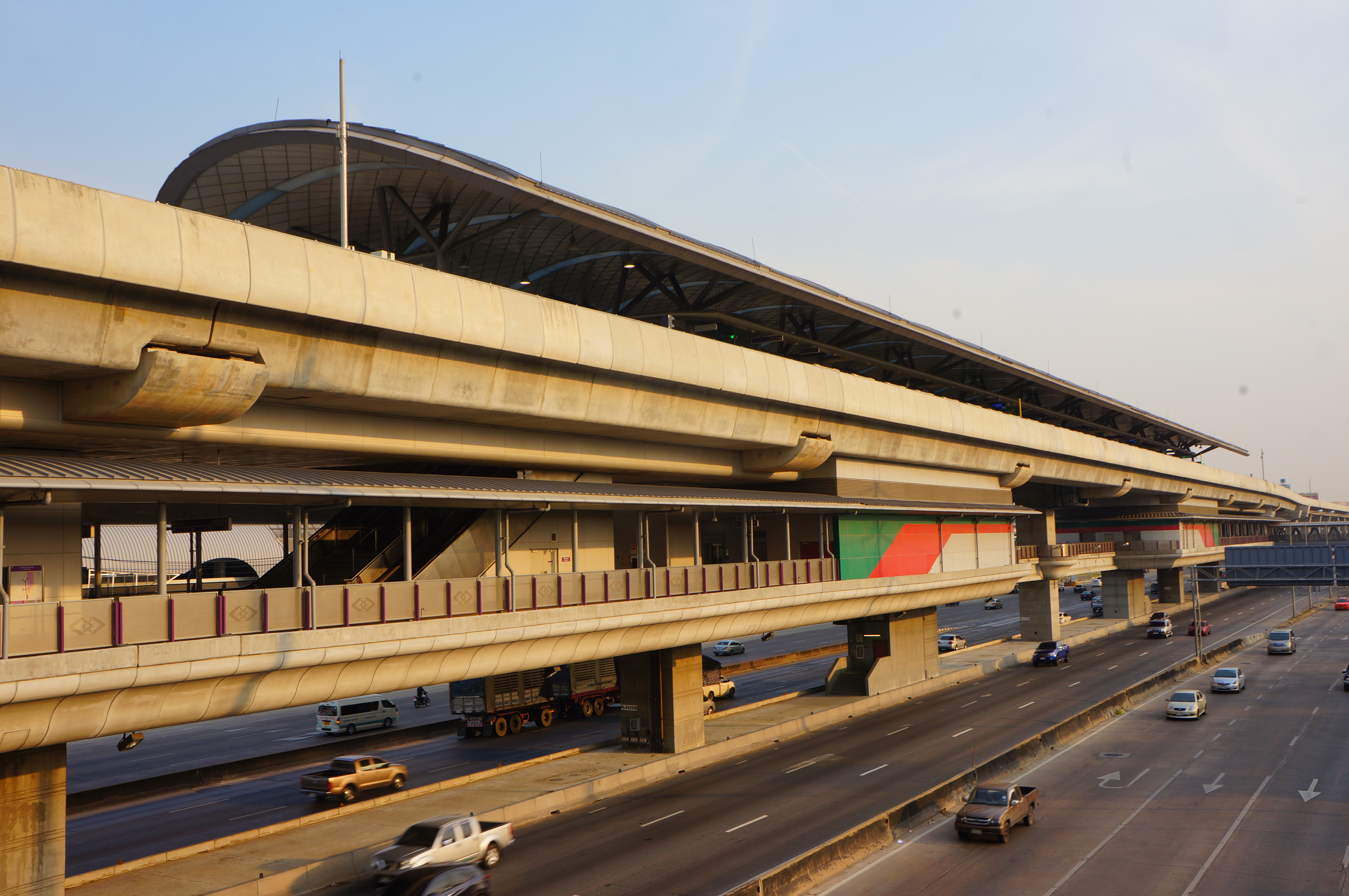 201701 Khlong Bang Phai Station, it looks like Pengpu Xincun Station